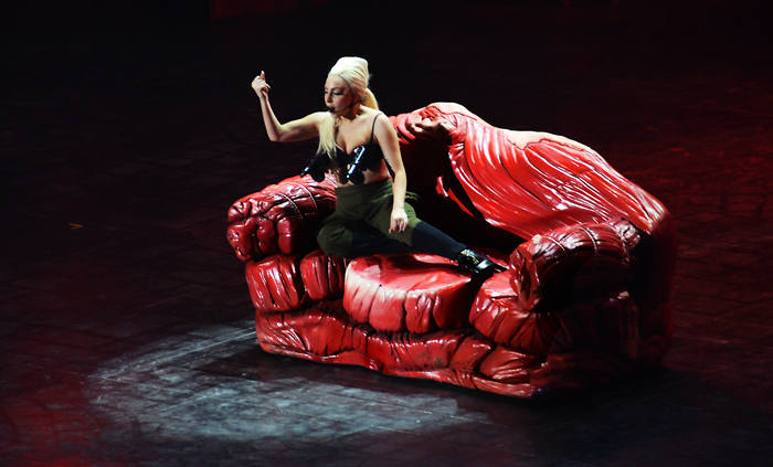 Lady Gaga performing "Alejandro" on The Born This way Ball Tour in Helsinki.